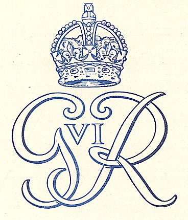 The monogram of King George VI